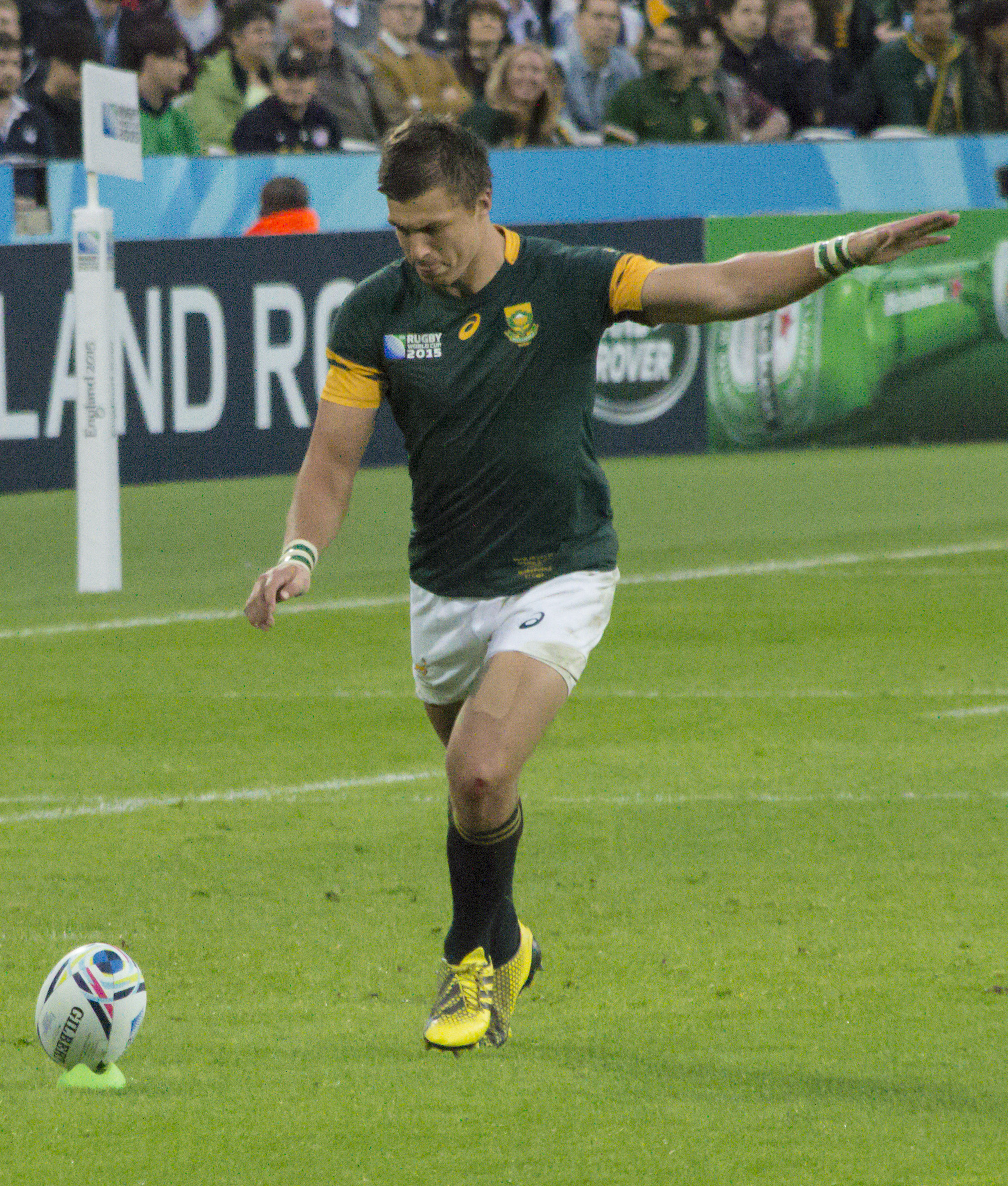 South African international rugby union footballer Handré Pollard kicking a conversion during 2015 Rugby World Cup game between South Africa and the United States played at the Olympic Stadium in London.